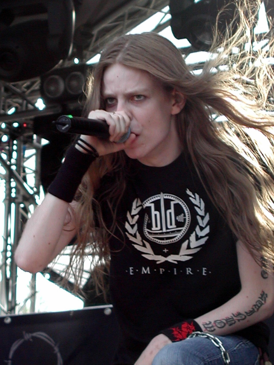 Ari Koivunen / Amoral in Tammela FINLAND 1st of April 2009. Photo: Noora Hyväri